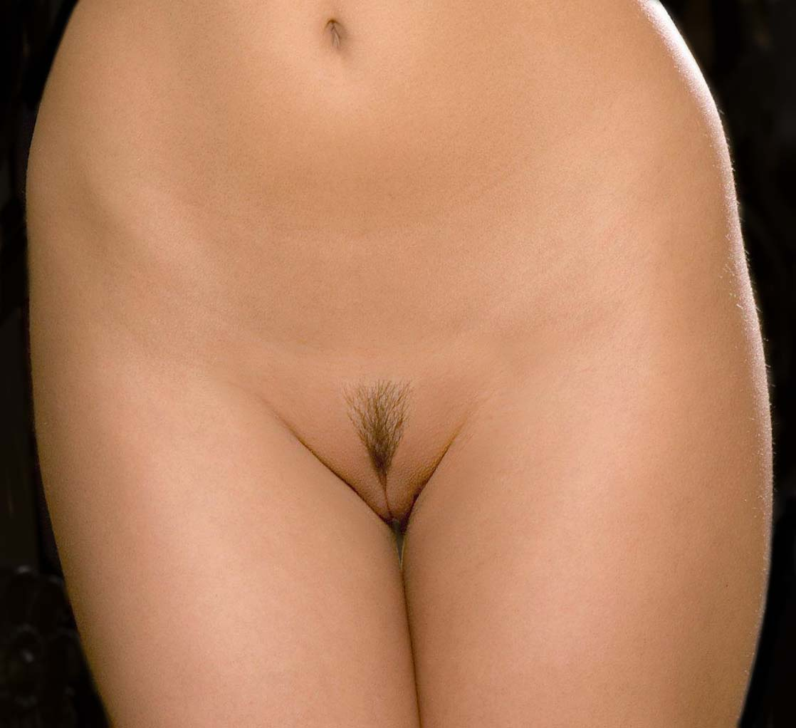 woman with pubic hair triangle style